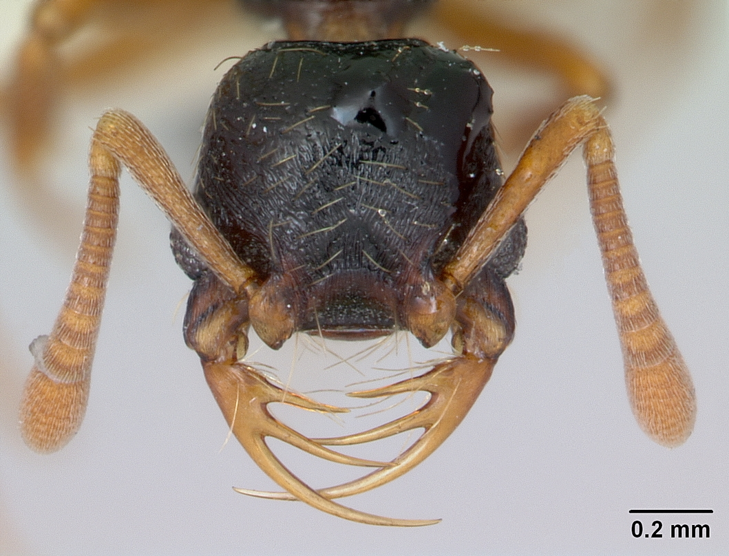 Head view of ant Thaumatomyrmex cochlearis specimen casent0173028.